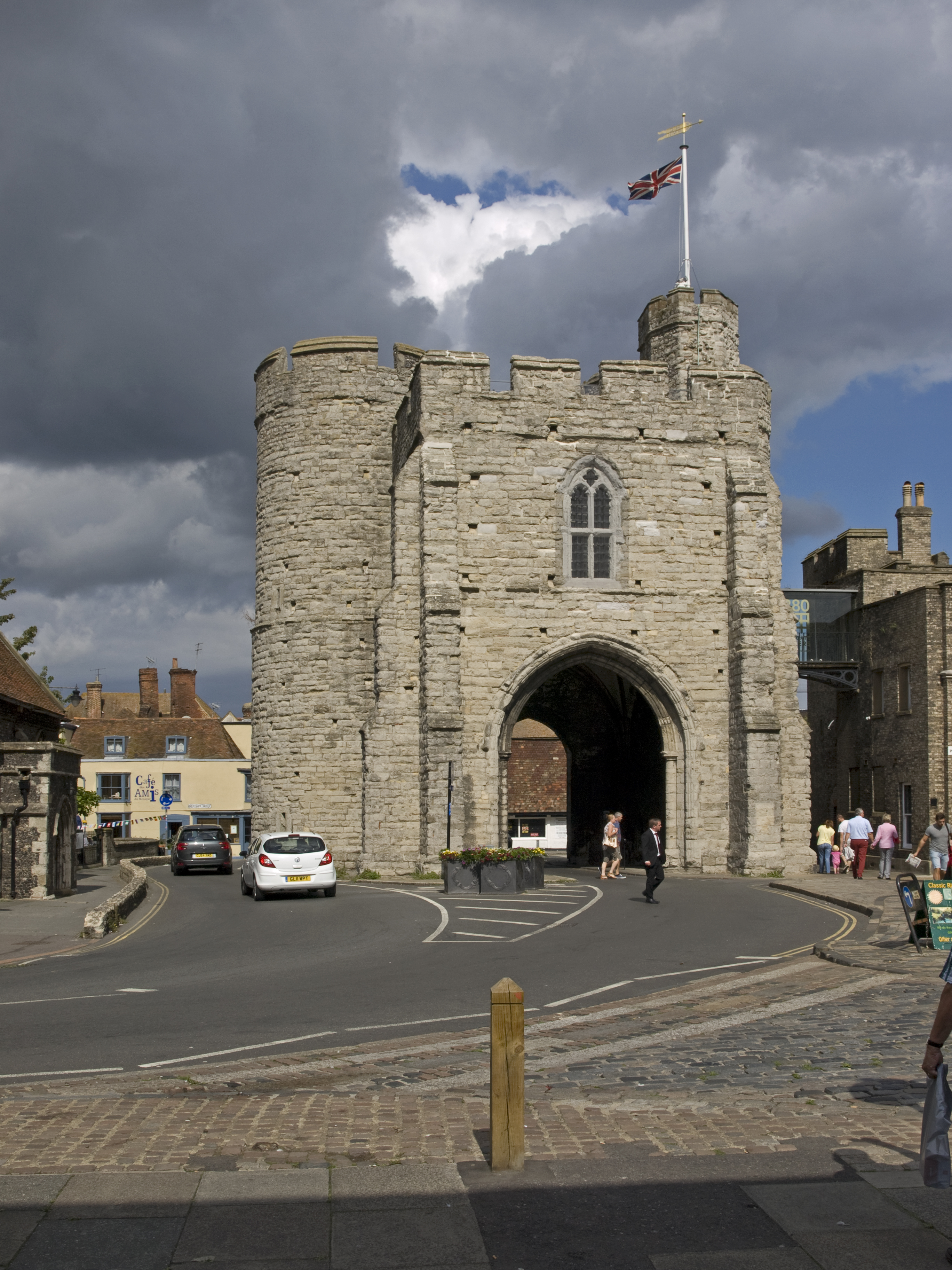 Canterbury West Gate, reverse side